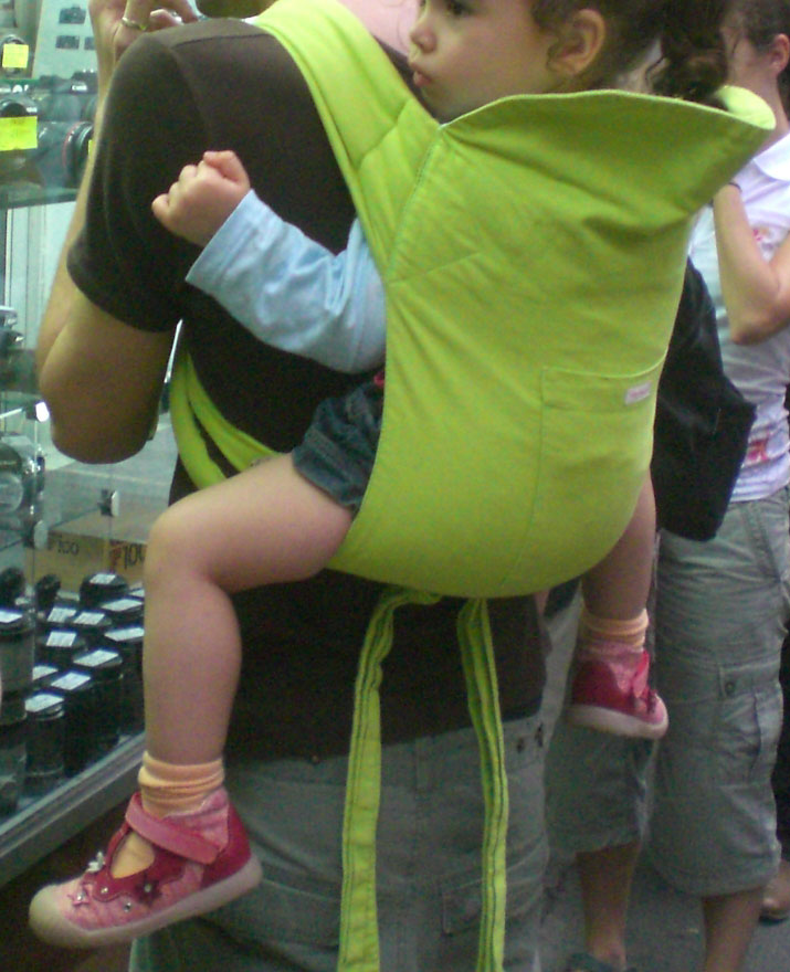 zh-yue:孭帶